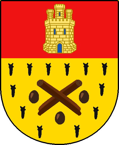 CoAElcano